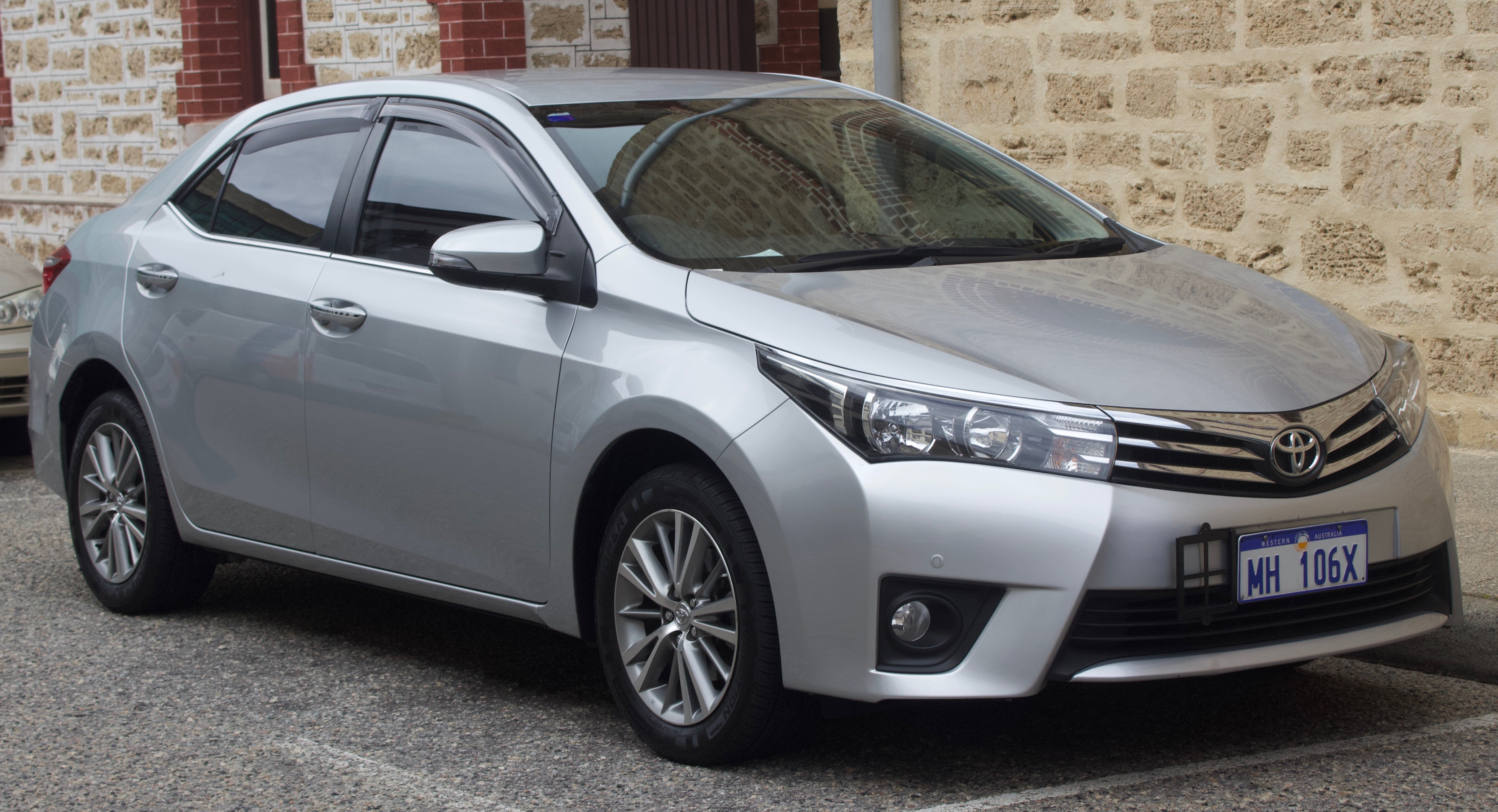 2013-2016 Toyota Corolla (ZRE172R) SX sedan. Photographed in Fremantle, Western Australia, Australia.